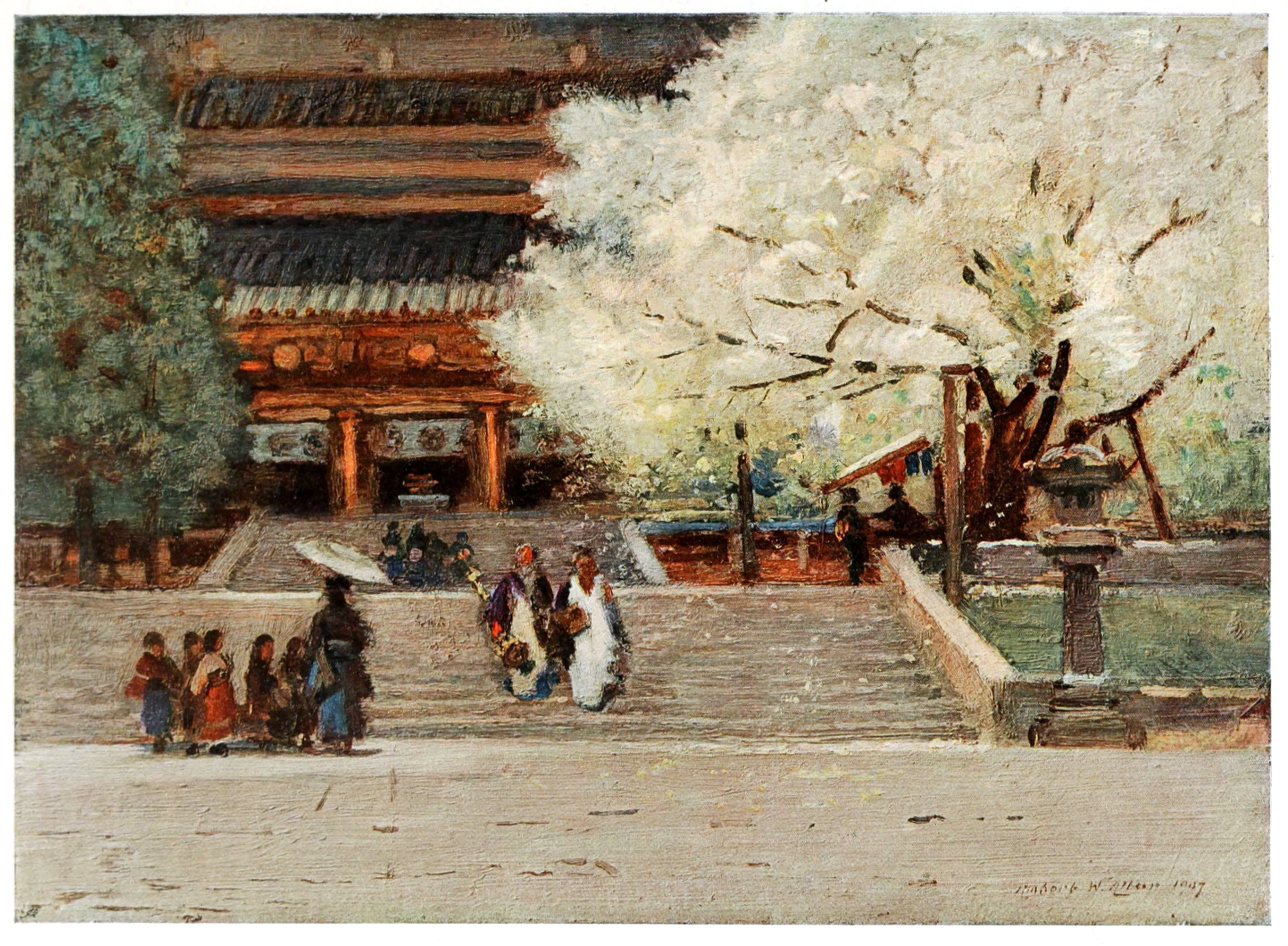 Temple at Nikko, Japan, by Robert W Allan